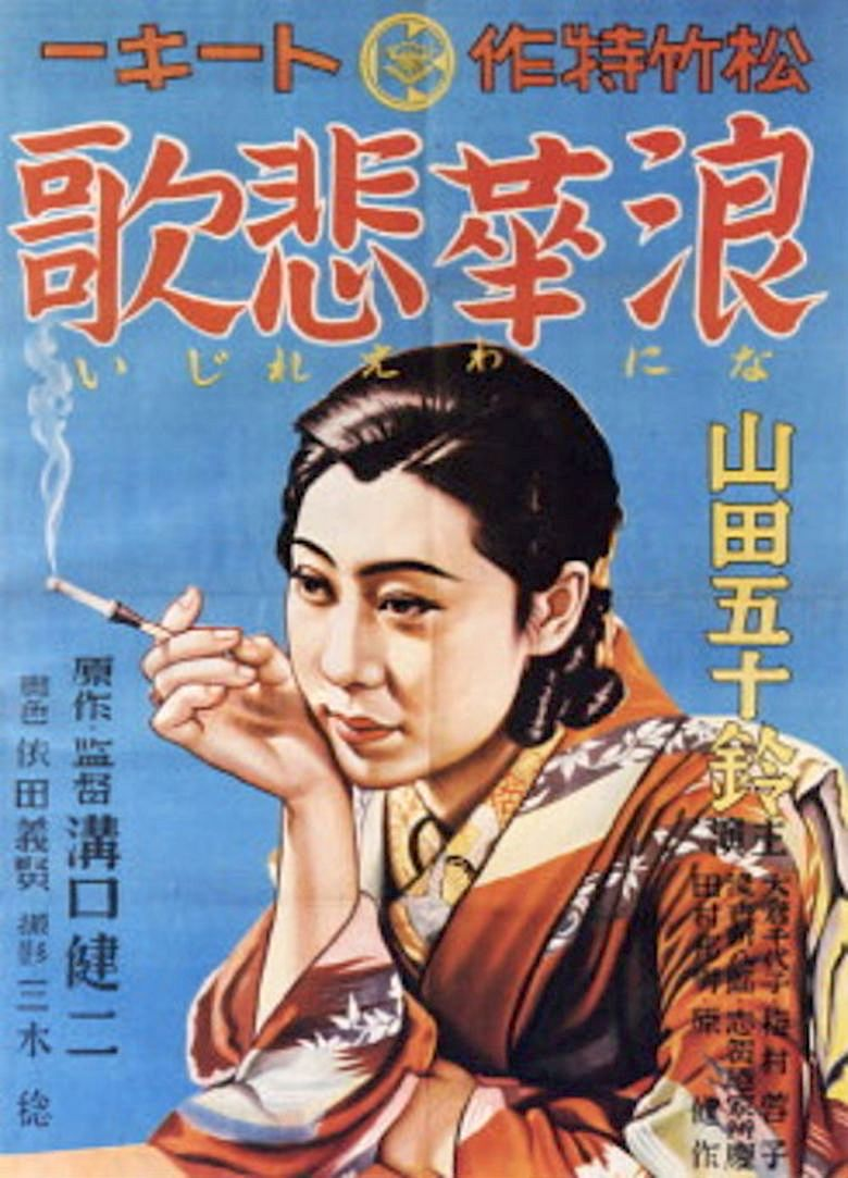 1936 Japanese movie poster for 1936 Japanese movie Osaka Elegy (浪華悲歌 Naniwa erejii) featuring Isuzu Yamada.